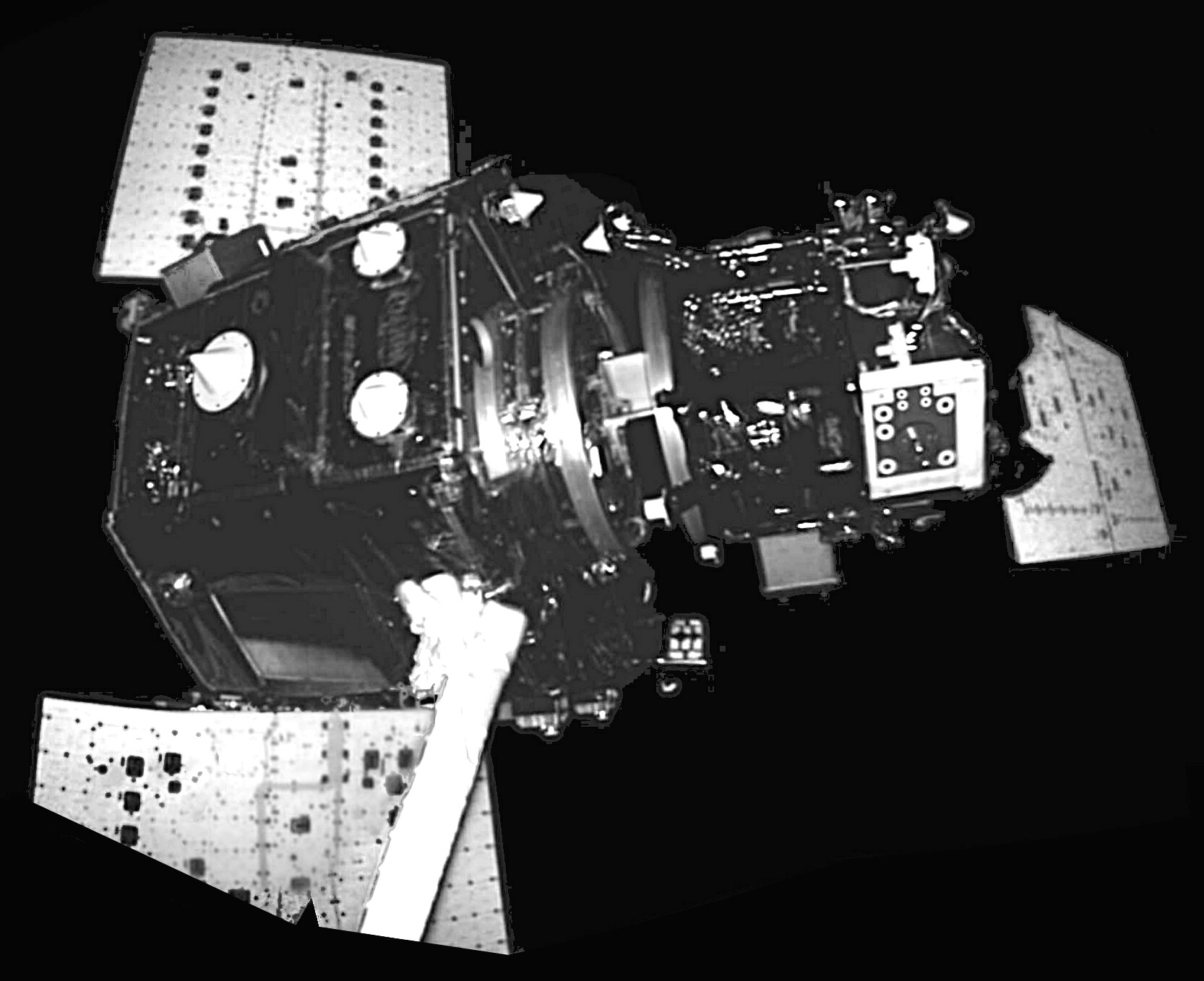 Orbital Express photographed in orbit by its own arm mounted camera